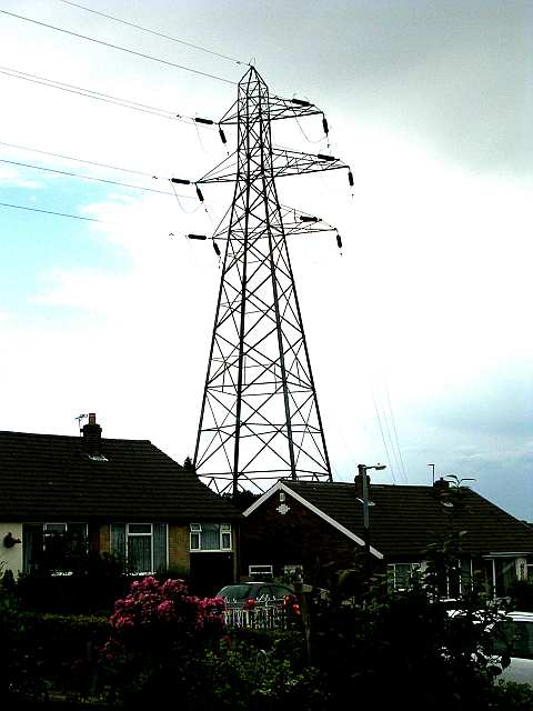 Electricity Pylon - Chatsworth Crescent